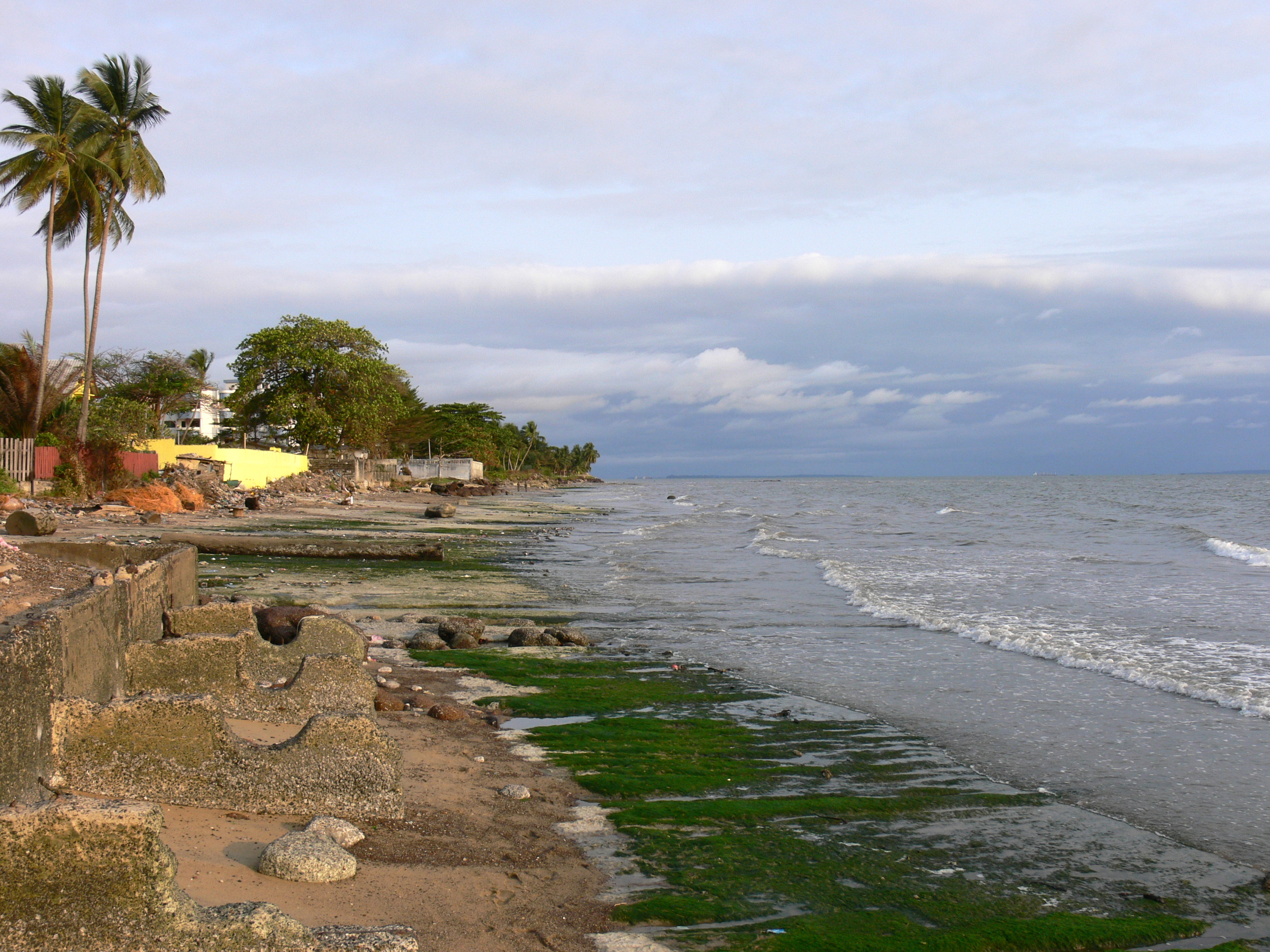 Beach scene in Libreville, Gabon